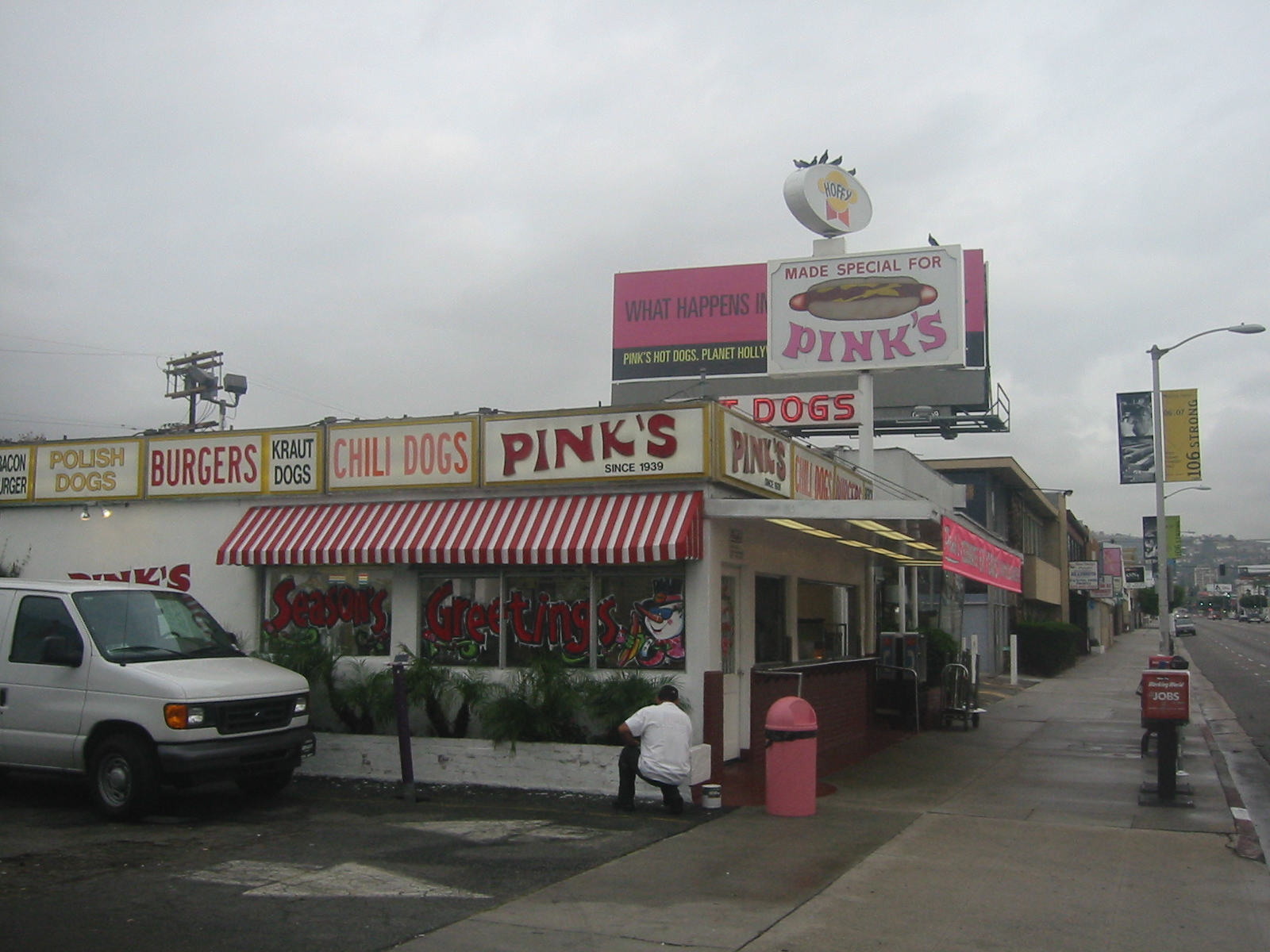 The famous Pink's Hot Dogs stand on the west side of La Brea Avenue, in Los Angeles California.